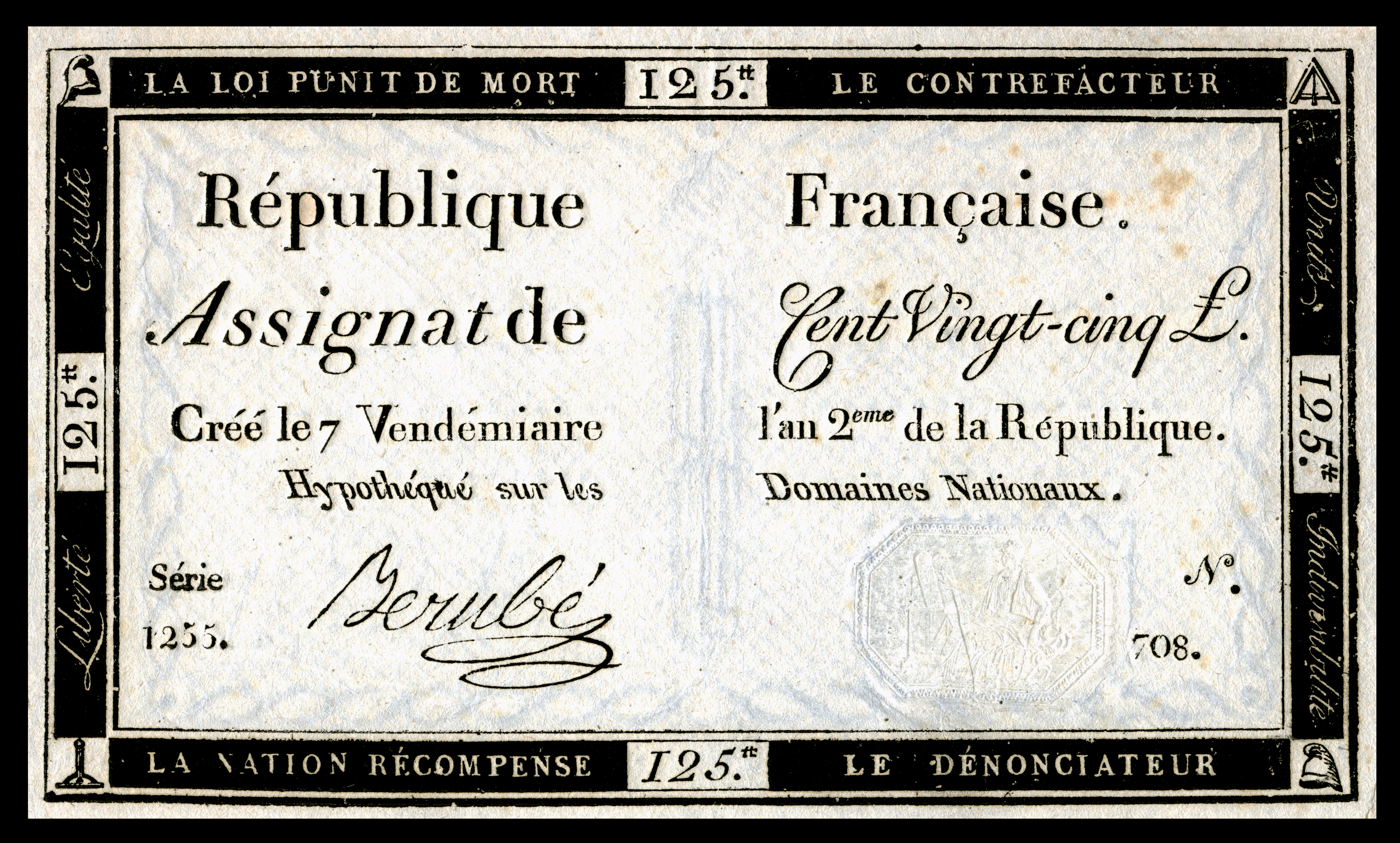 Early French banknote issue by République Française - Assignat for 125 livres, 1793 First Issue (Pick ref# A74).The text Créé 7 Vendémiaire l'an 2eme de la République indicates the date of printing by the French Republican Calendar ("Created the 7th of Vendémiaire ("Time of the Grape Harvest"), Year II of the Republic" / September 28, 1793). Serie 1255 N. 708 means that this note is #708 of printing lot 1255.The term Hypothéque sur les Domaines Nationaux translates as "Mortgaged on National Properties", meaning the Assignat is a promissory note backed by the government.The warning on the top and bottom reads La loi punit de mort / le contrefacteur. / La Nation récompense / le Dénonciateur. and translates as "The Law punishes the Counterfeiter with death. The Nation rewards the Informer."The motto on the sides is Liberté / Egalité / Unité / Individualité, which translates as "Liberty, Equality, Unity, Individuality".